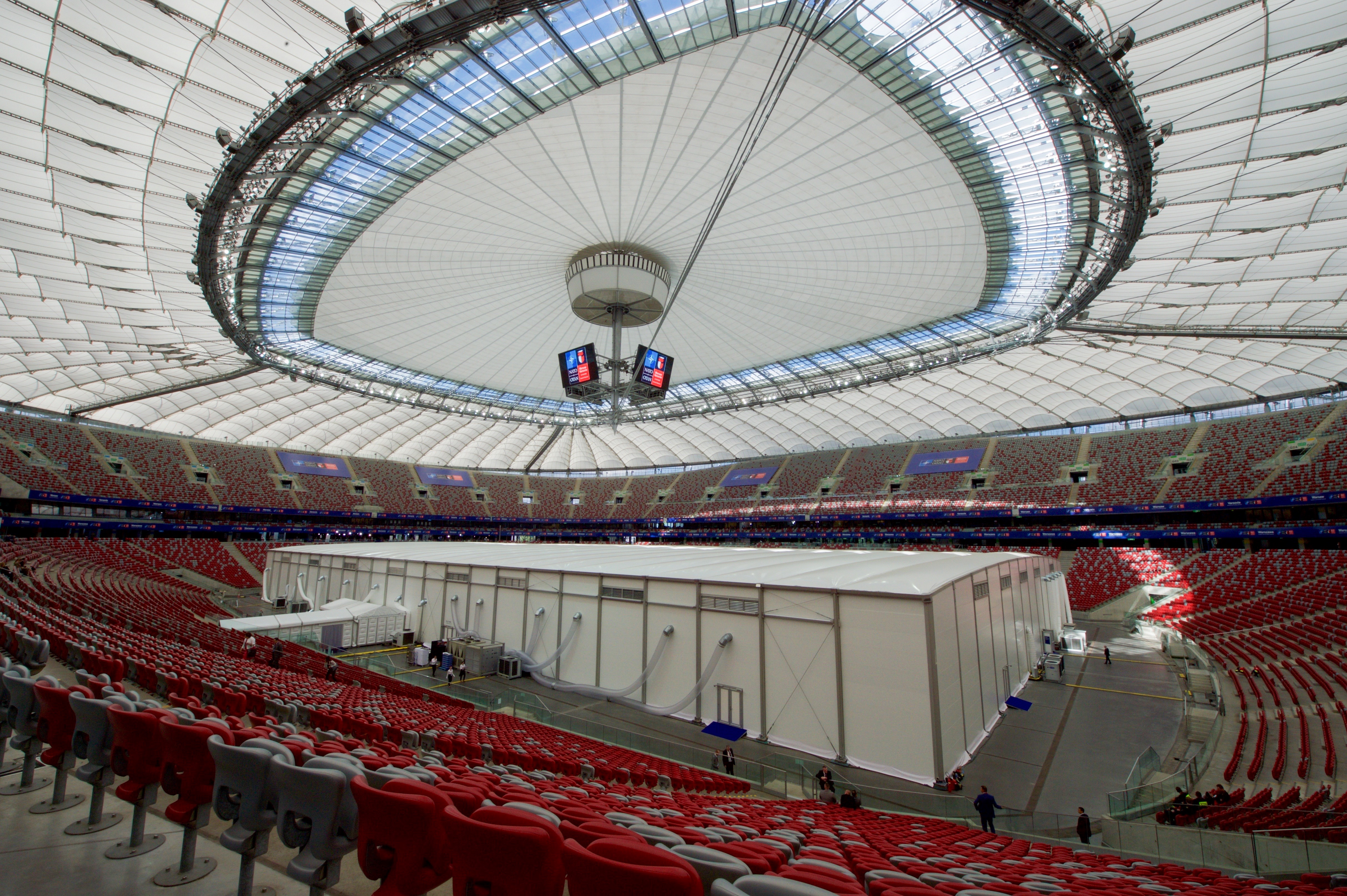 The National Stadium in Warsaw, Poland, where President Obama and U.S. Secretary of State John Kerry were attending the NATO Summit on July 8, 2016, in a temporary structure built on a playing pitch first constructed for the European soccer championship. [State Department Photo/Public Domain]